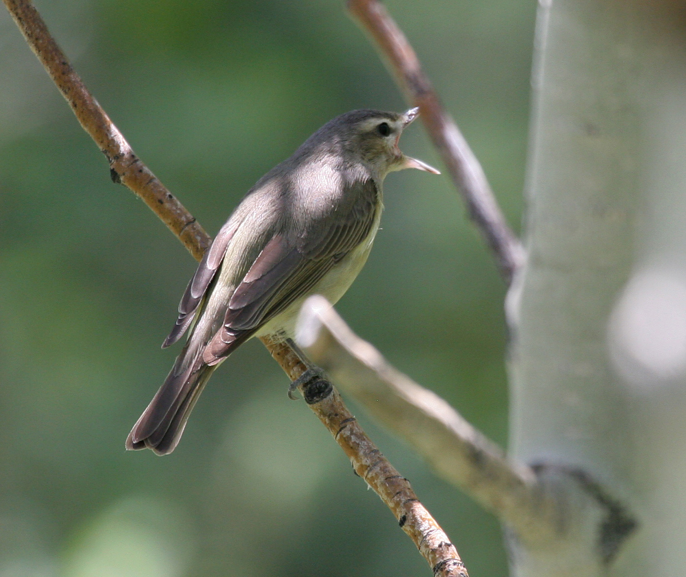 Warbling vireo (Vireo gilvus), Ruby Mtns., Nevada, USA